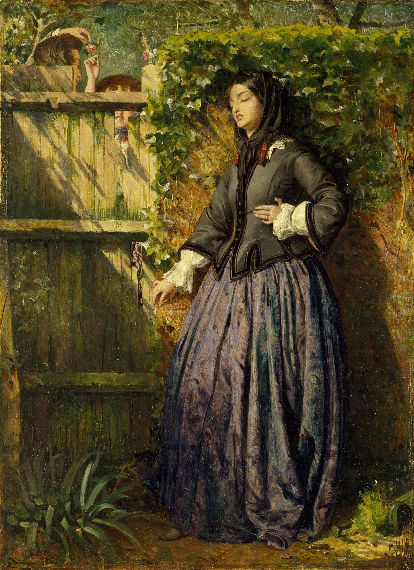 This is a smaller repetition of a painting exhibited at the Royal Academy in 1857, with a quotation from Longfellow's The Spanish Student, Act II, scene iv, spoken by Preciosa, "More hearts are breaking in this world of ours" (Tate Britain).